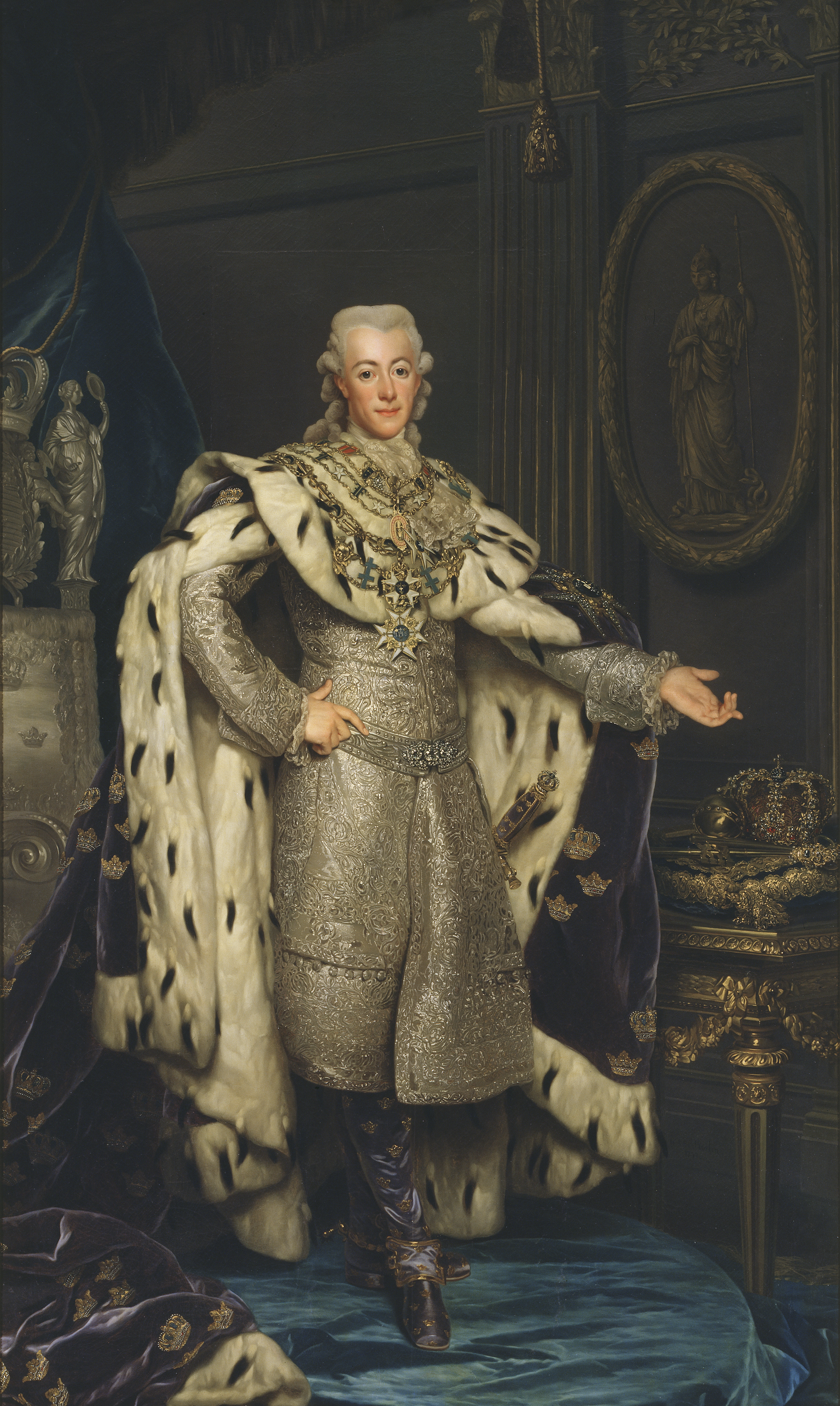 Gustav III in coronation-robe.